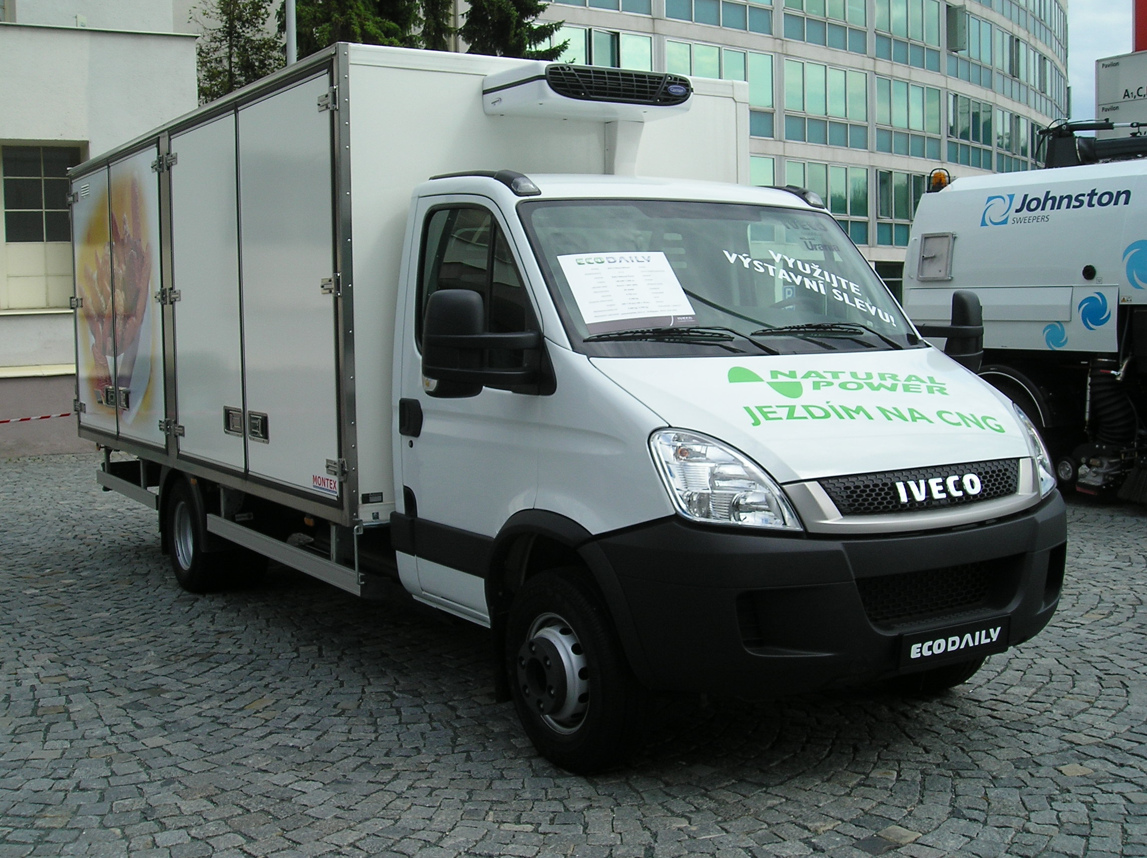 Autotec 2010 Iveco Daily (2006) CNG